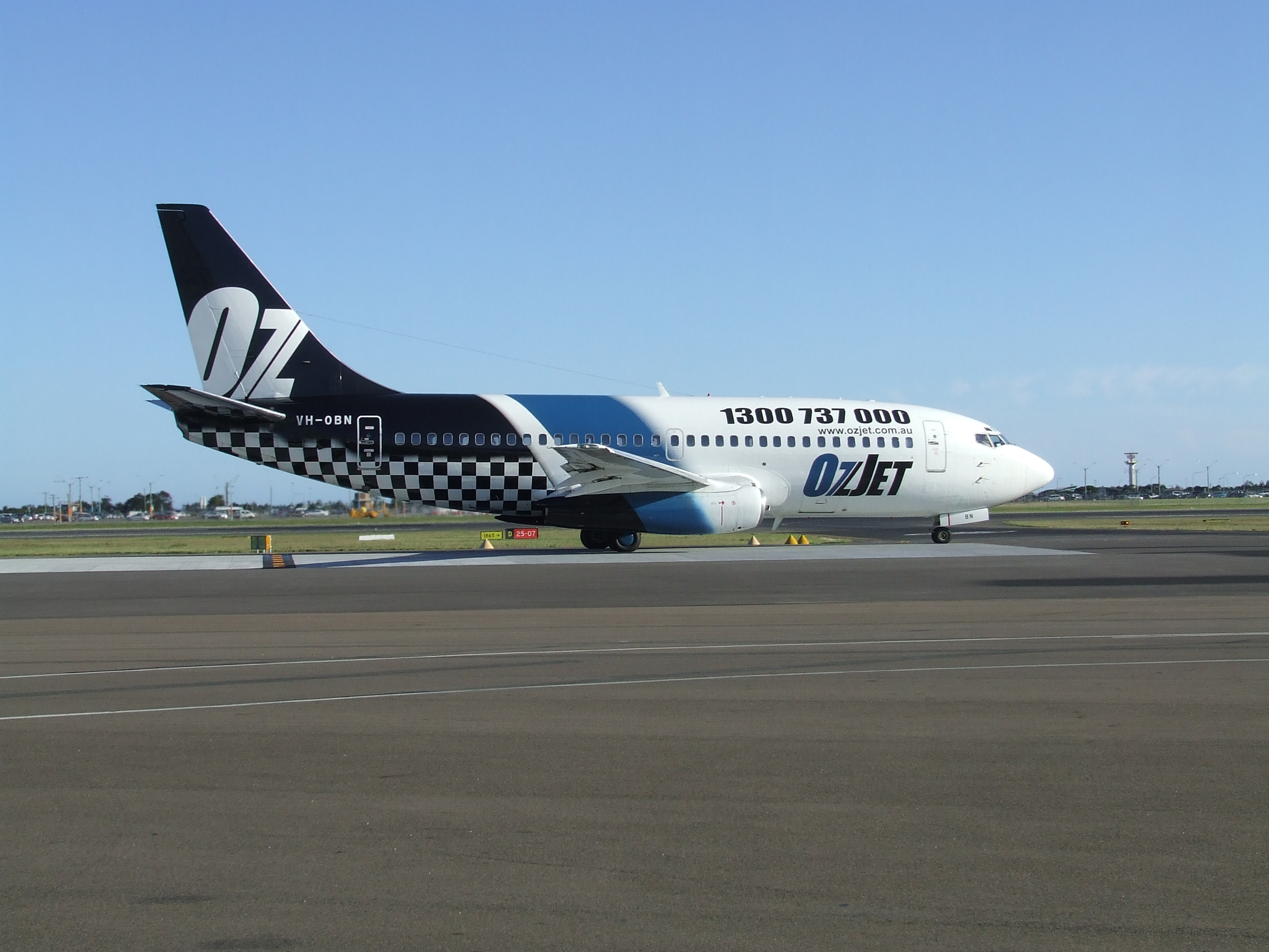 Since ceasing scheduled Melbourne-Sydney services, Ozjet has carved out a niche market for itself with its Business Class-configured Boeing 737-200s. VH-OBN has been used by music acts touring Australia such as U2. It is pictured taxiing at Kingsford Smith International Airport in Sydney with the President of Finland Tarja Halonen and her entourage on board during a State visit to Australia. Digital photo of VH-OBN taken by YSSYguy at Sydney Airport on February 17 2007 & uploaded for use in the OzJet article.